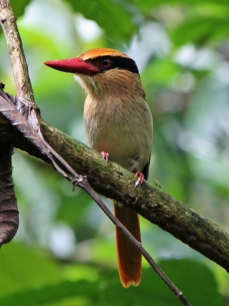 Lilac Kingfisher (Cittura cyanotis cyanotis) at Bintauna, North Sulawesi